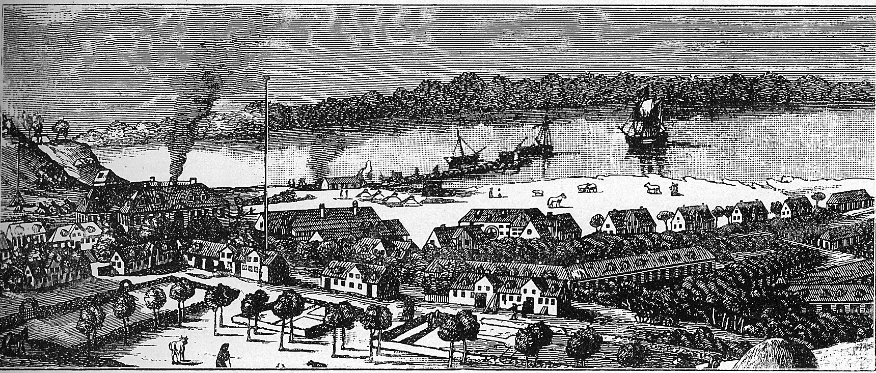 Kobberstik fra 1700-tallet der viser Frederiksværk på J.F. Classens tid.